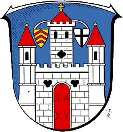 Coat of Arms of Groß-Umstadt